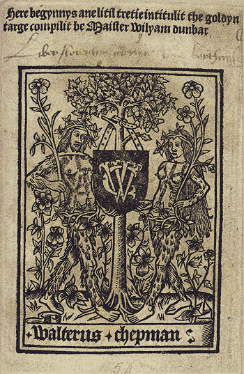 The Opening page of Dunbar’s “The Goldyn Targe” in the Chepman and Myllar Prints, Edinburgh, 1508. Walter Chepman’s device showing an oak tree and pair of wild man and woman.